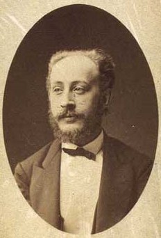 Johan Georg Frans Schwartz (19 July 1850 - 13 February 1917), Danish Painter.